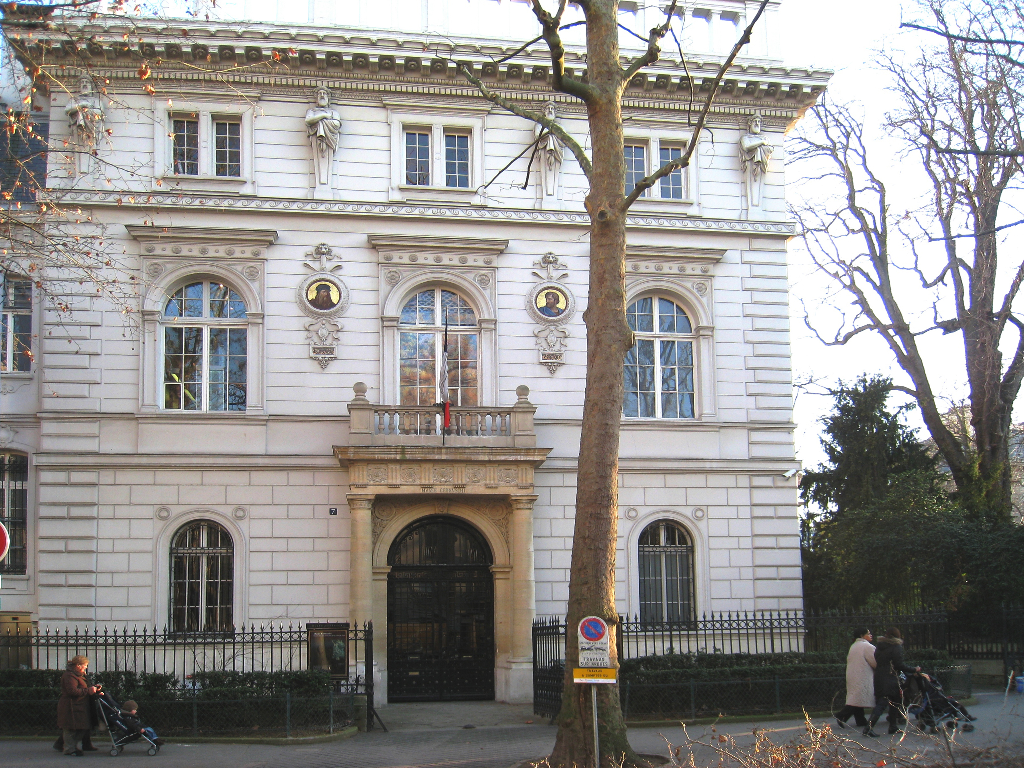 Exterior view of the Musée Cernuschi.